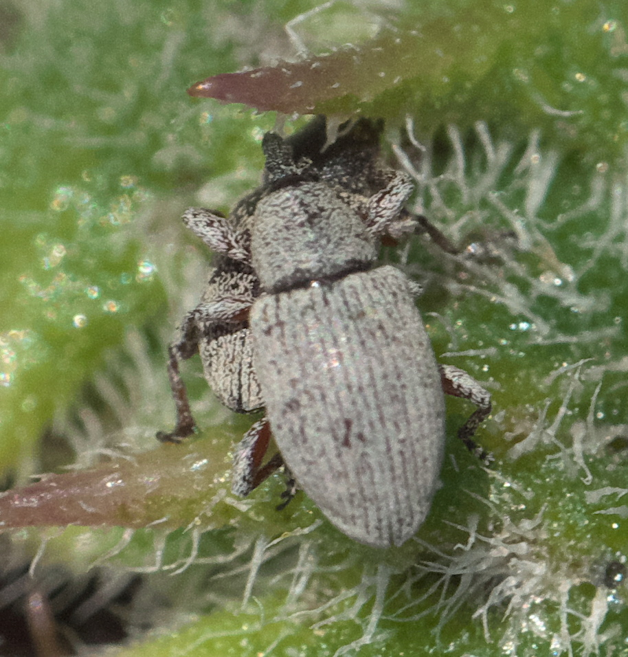 Smicronyx sordidus, gray sunflower seed weevil, ID Confidence: 98